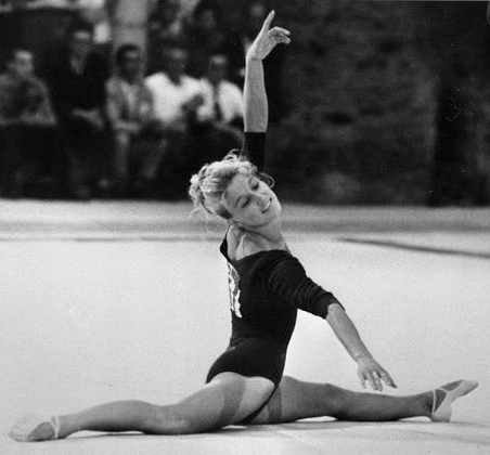 Polina Astakhova at the Rome Olympics